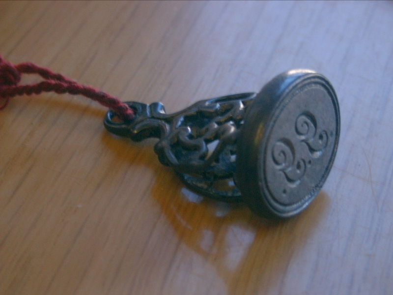 Signet of silver. Photo by Friman 2006-03-21